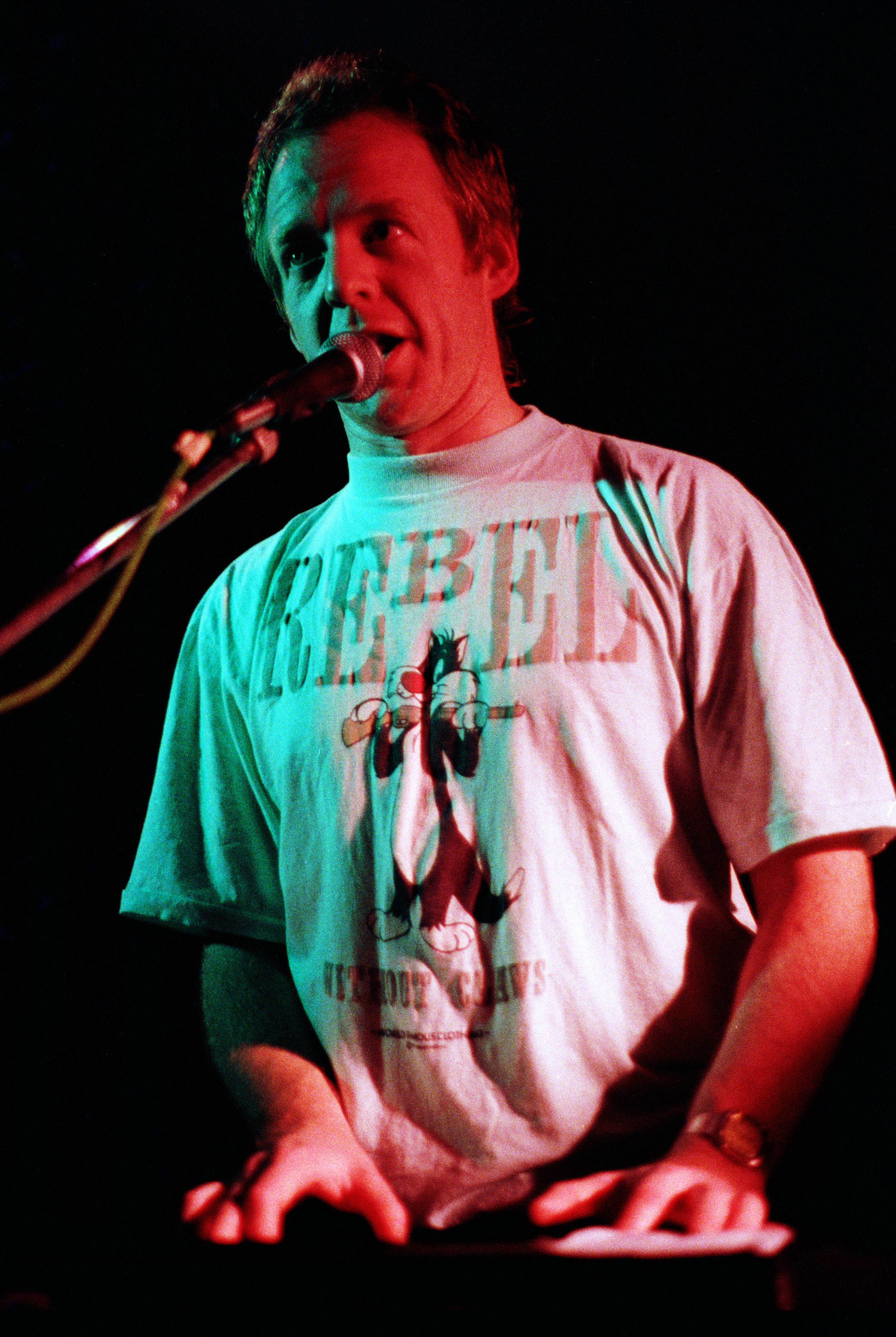 Geraint Lovgreen a'r Enw Da. Geltaidd 100 concert in Aberystwyth, 1985. Image by Medwyn Jones